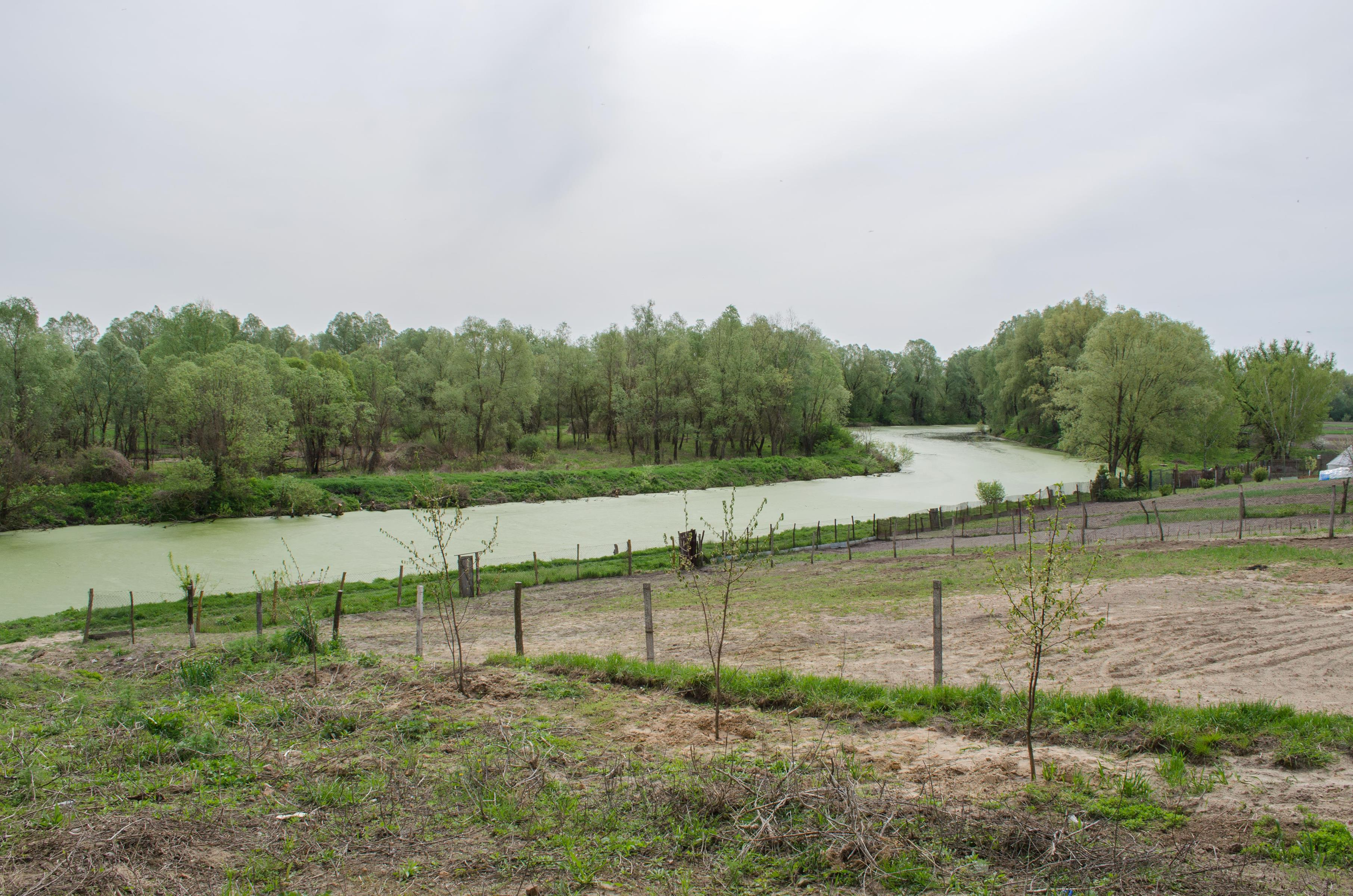 v.Berezanka, Chernihiv Raion, Chernihiv Oblast, Ukraine